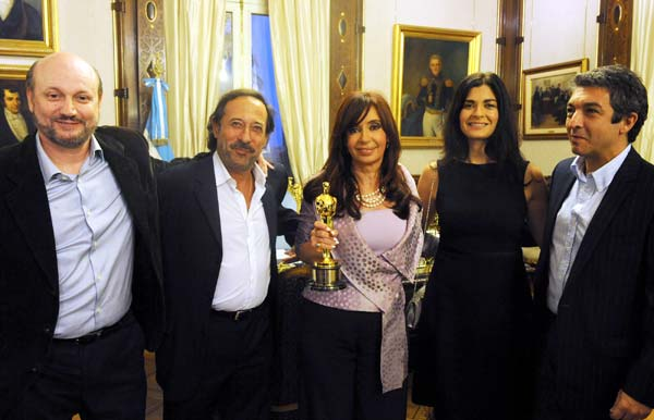 From left to right: Argentine filmmaker Juan José Campanella, actor Guillermo Francella, President Cristina Kirchner, actress Soledad Villamil, and actor Ricardo Darín together at the Casa Rosada to celebrate the 2010 Academy Award for Best Foreign Language Film bestowed on Campanella's thriller, El secreto de sus ojos.